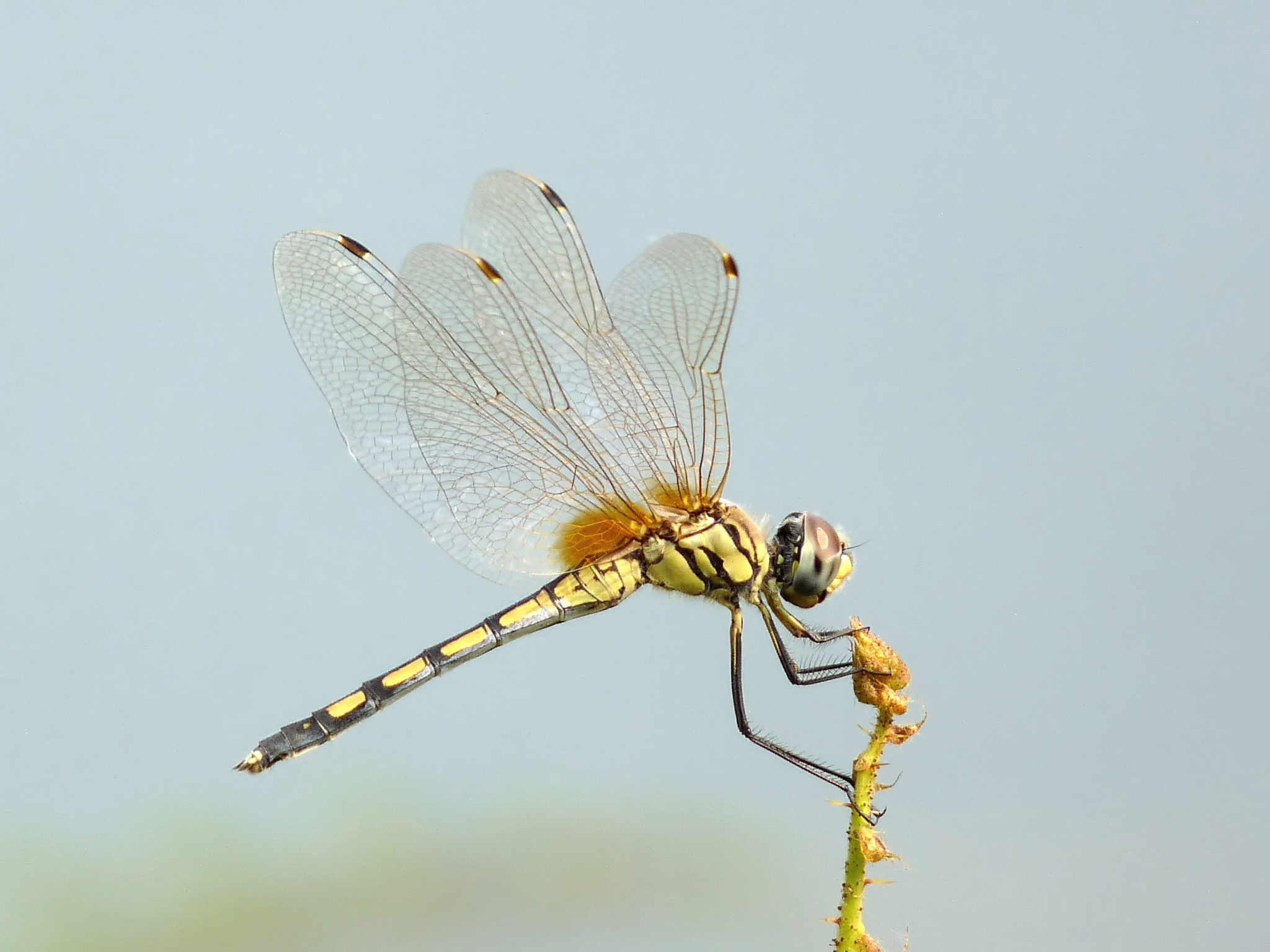 Long-legged Marsh Glider (Trithemis pallidinervis) Female Trithemis pallidinervis, Long Legged Marsh Glider is a species of dragonfly found in South Asia. They love sitting on small twigs and grasses in open areas, especially in the hot sun. The male and female have similar marking. However, the face of male is metallic purple but rather yellow white in female. The male varies in colour from yellow (below) to chocolate brown and is easily distinguished by its long legs and wings that point upwards. It also has yellow colouration to the base of the wings. Taken at Kudayathoor, Kerala, India.